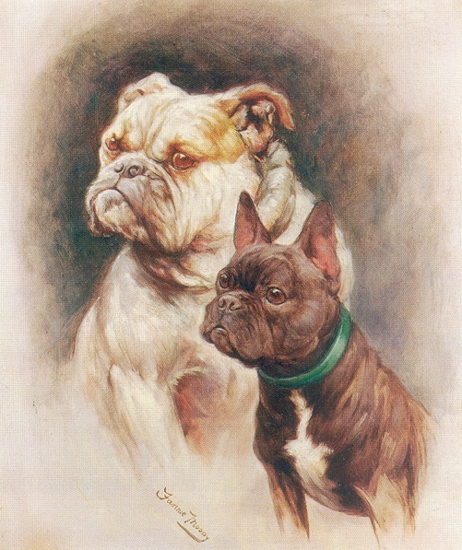 English and French Bulldogs